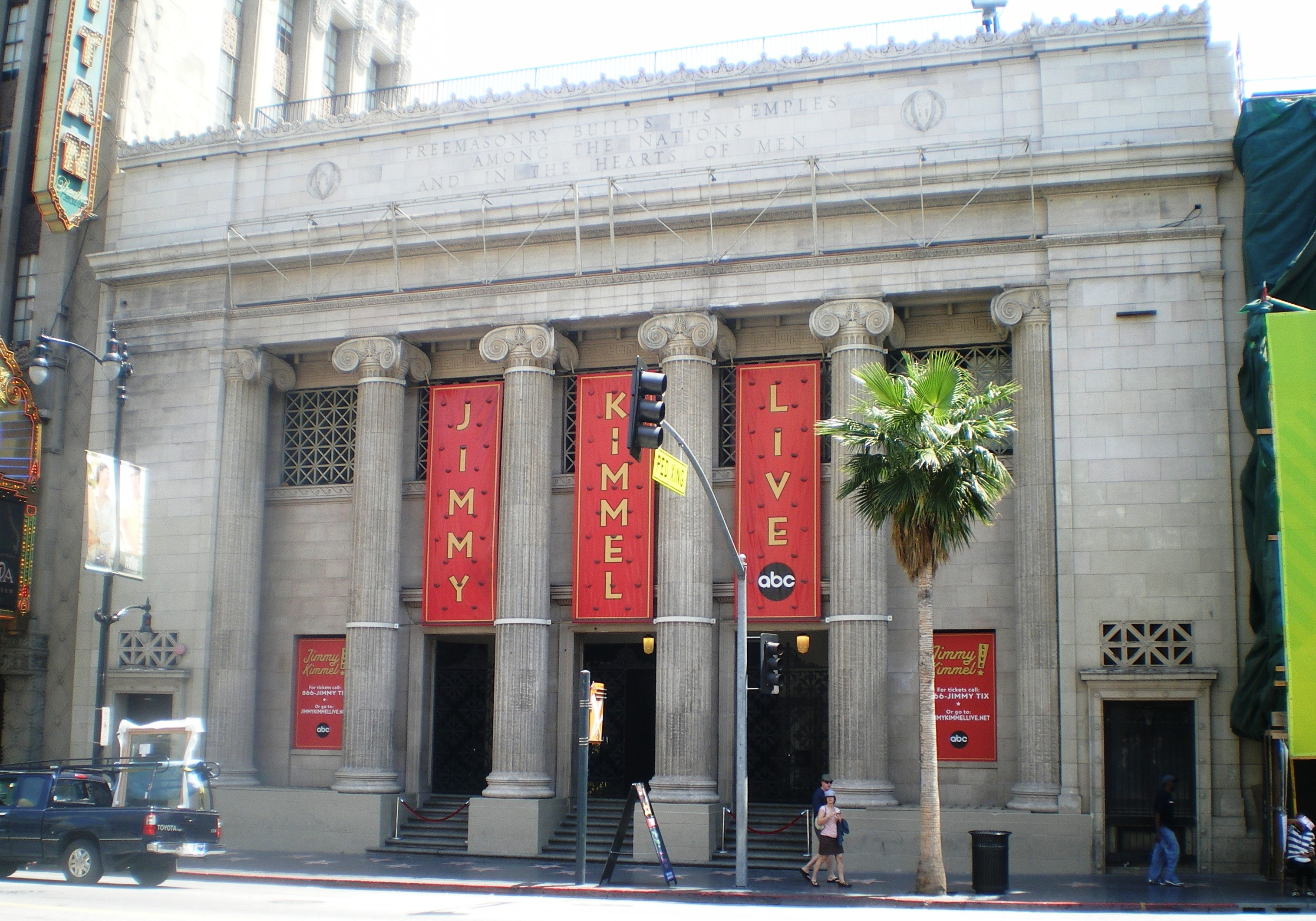 Hollywood Masonic Temple, 6840 Hollywood Blvd., Hollywood, California. Part of the El Capitan Entertainment Center